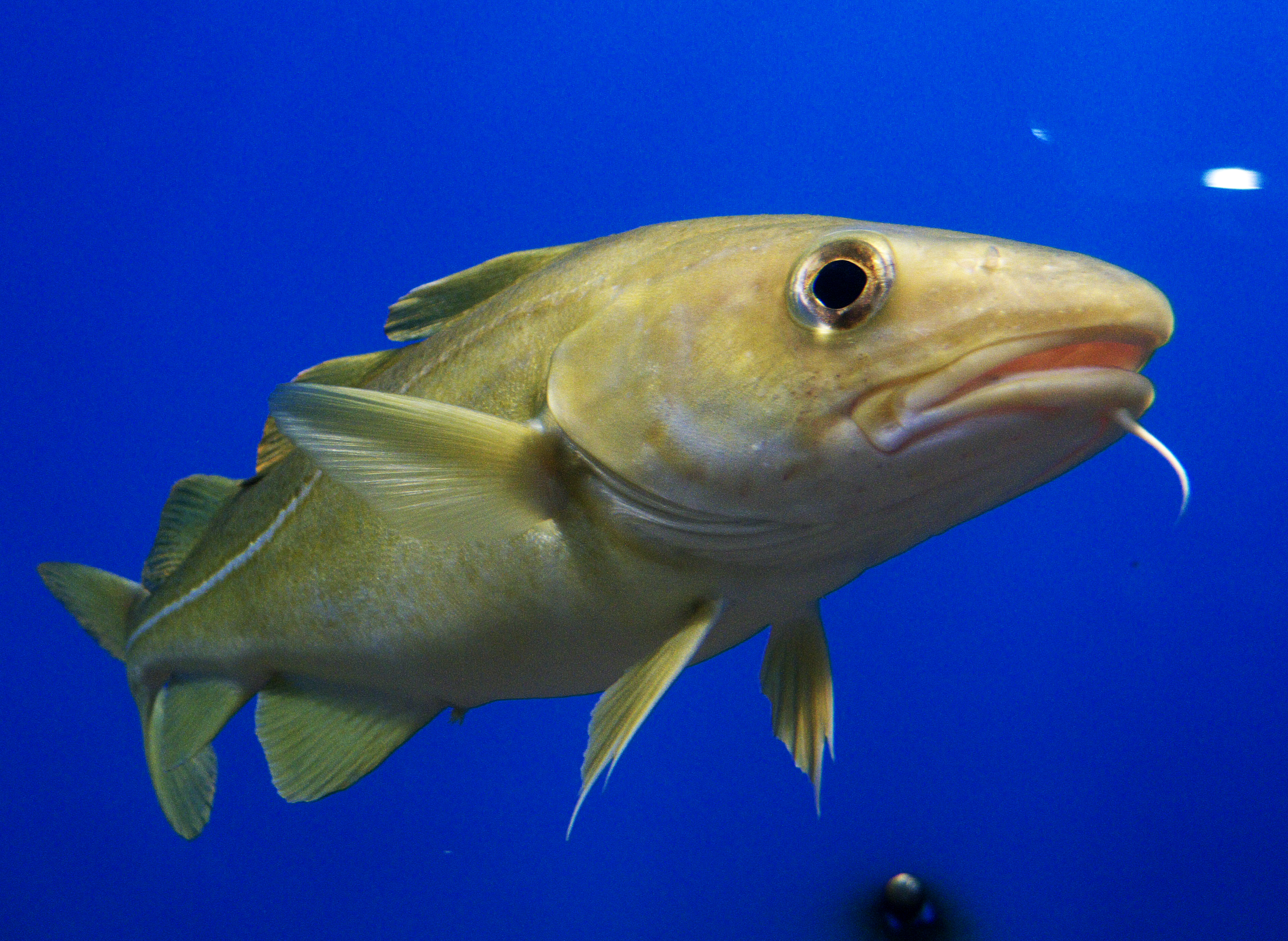 Portrait of Cod